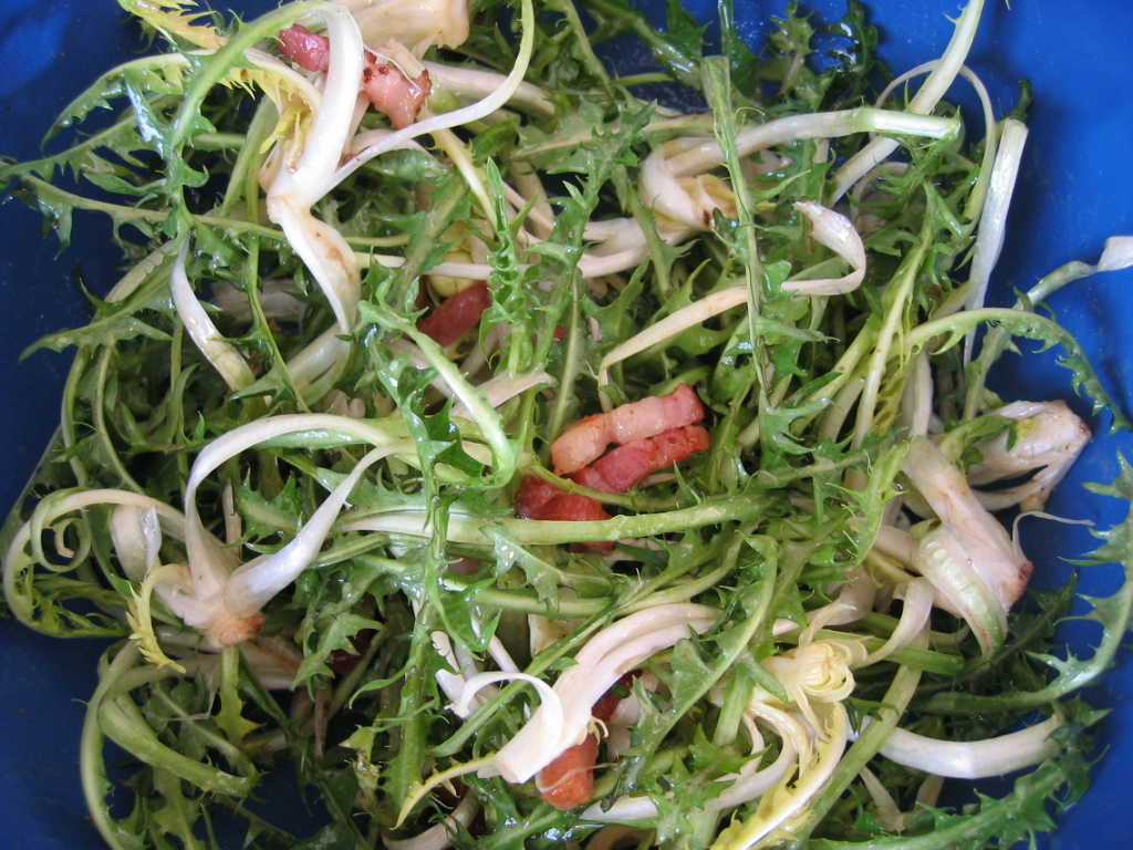 Dandelion salad